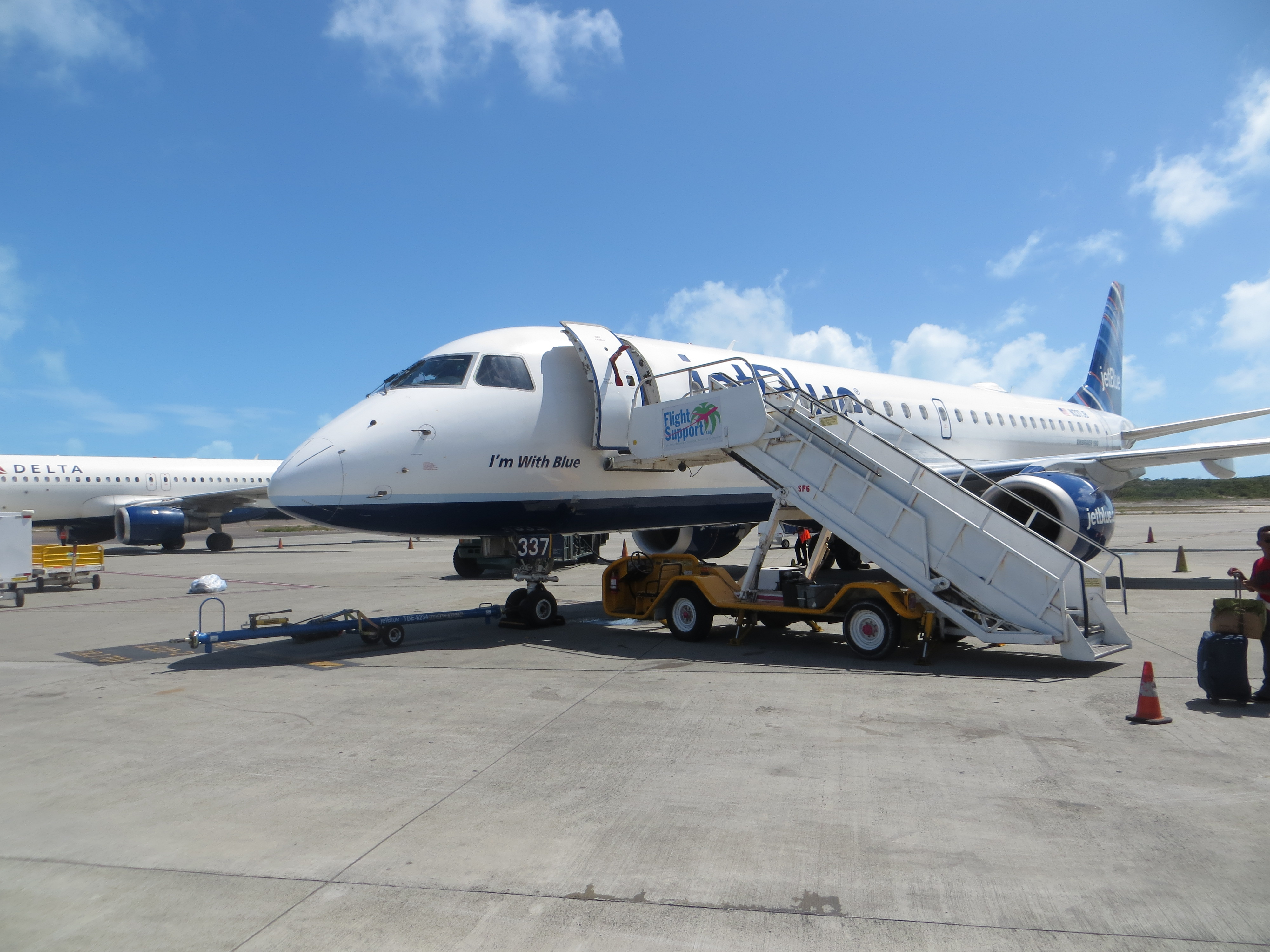 A JetBlue Embraer 190, N337JB, at Providenciales Airport. Awaiting departure to Fort Lauderdale